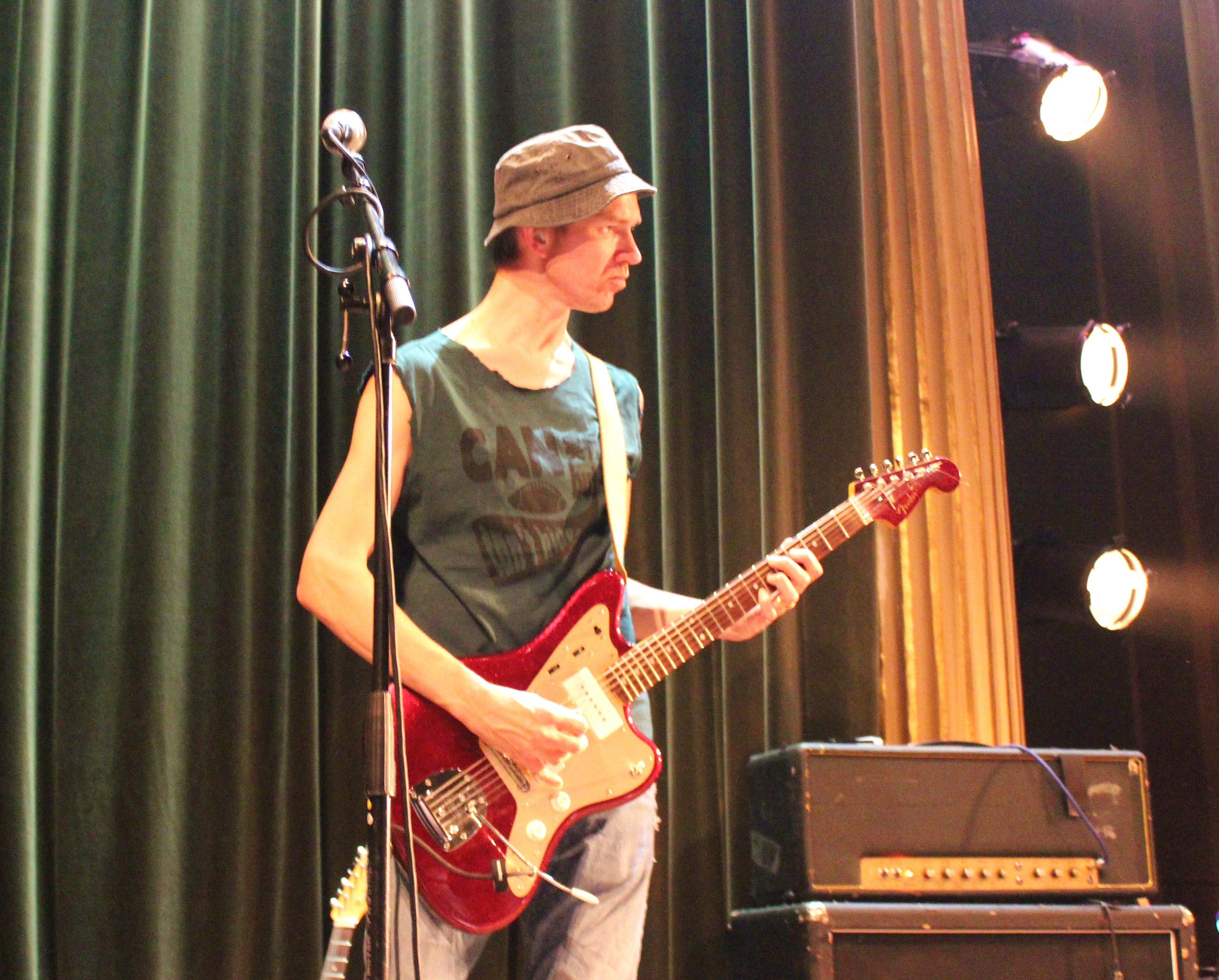 Swedish writer and guitarist Jon Jefferson Klingberg playing with the group Docenterna, at Nalen, Stockholm, September 21st 2012